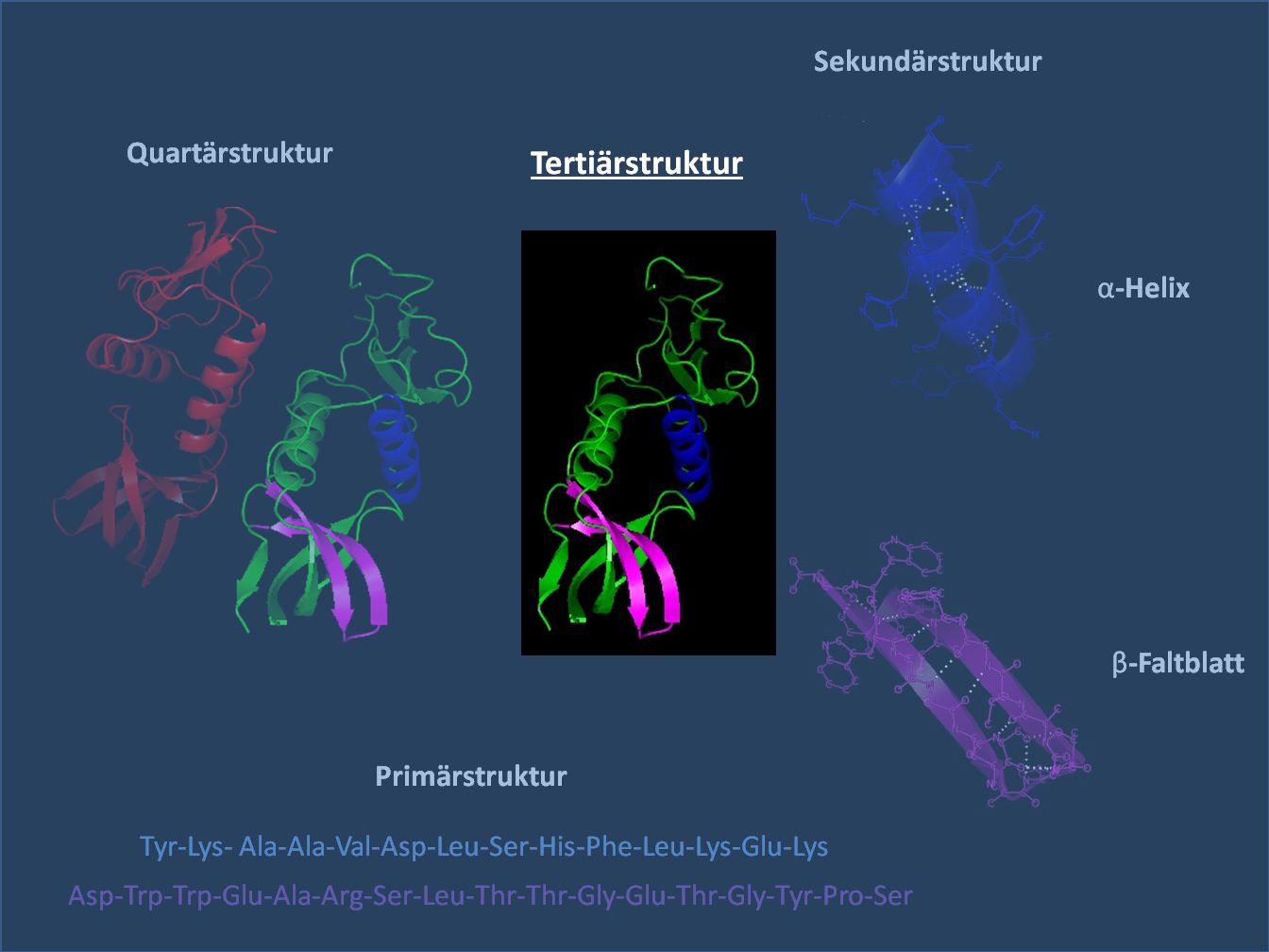 Faltung des Proteins 1EFN mit Fokus auf die Tertiärstruktur